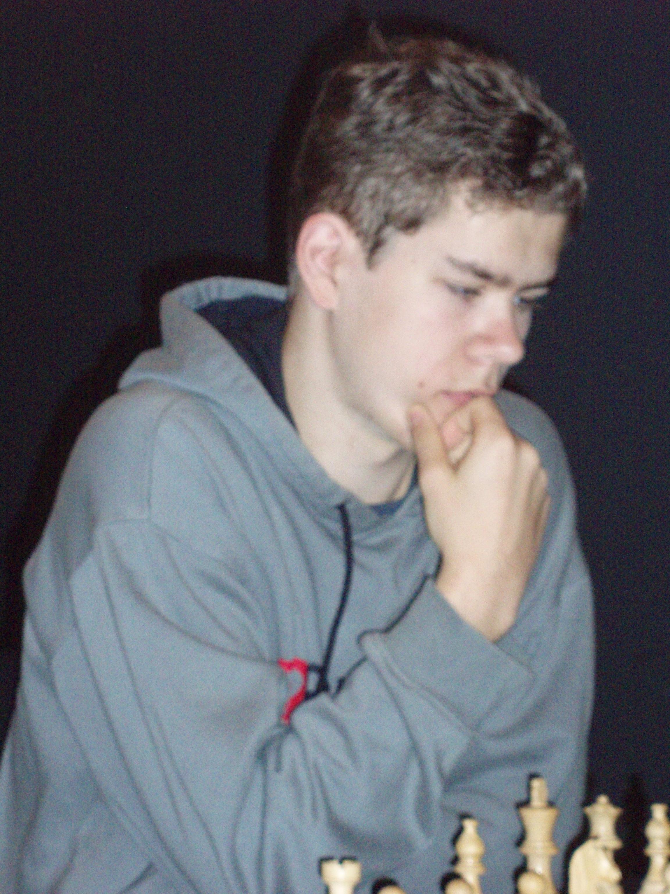 Jon Ludvig Hammer at the Norwegian Chess Championship at Hamar 2007 Jon Ludvig Hammer, NM på Hamar 2007